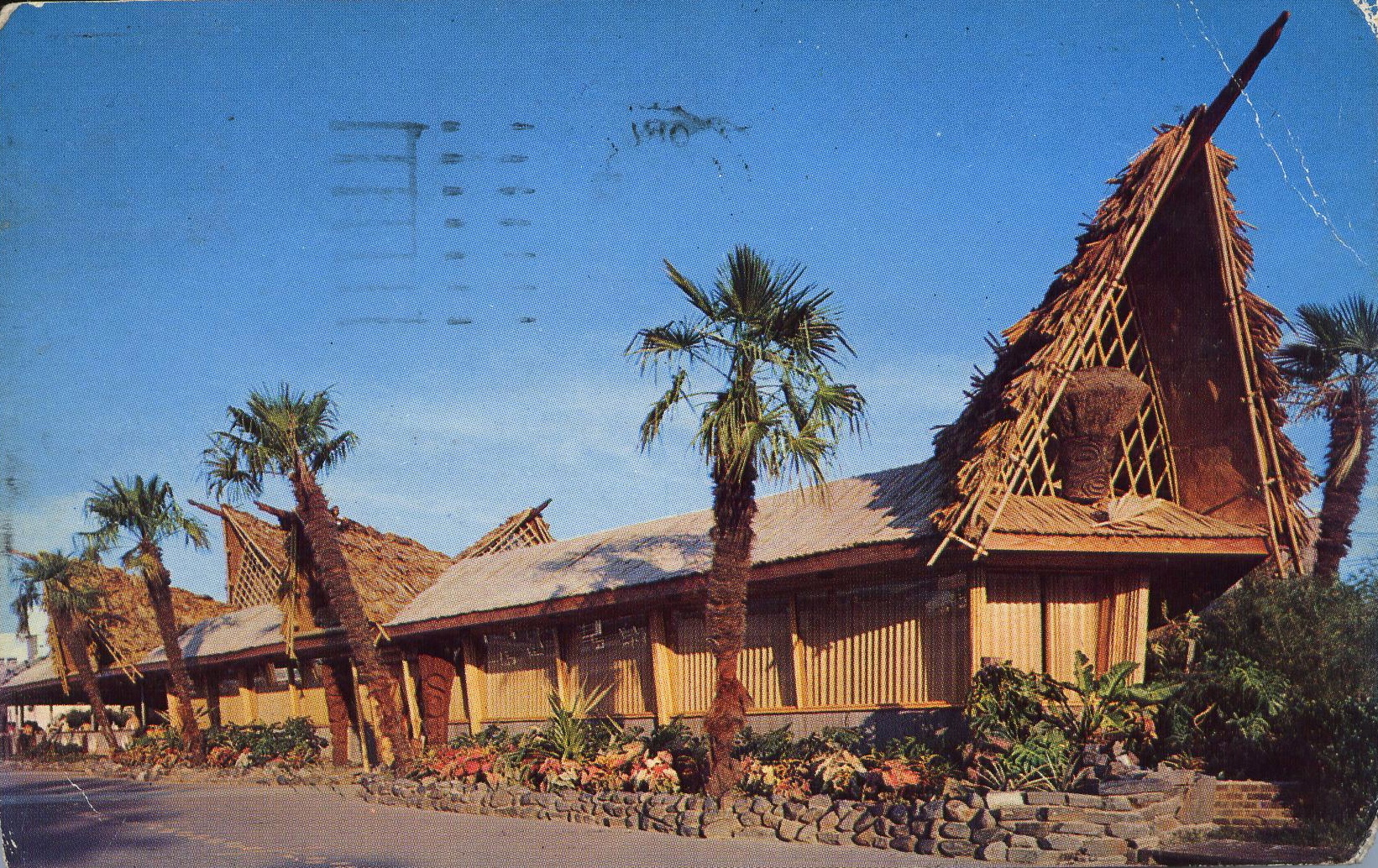 New Orleans: Postcard view of Bali Ha'i Restaurant, 1950s. Note: This was a restaurant serving Cantonese and Polynesian food decorated in "Tiki" style, located adjacent to Pontchartrain Beach near the Lakefront end of Elysian Fields Avenue. It closed down about the start of the 1980s and the building was demolished.